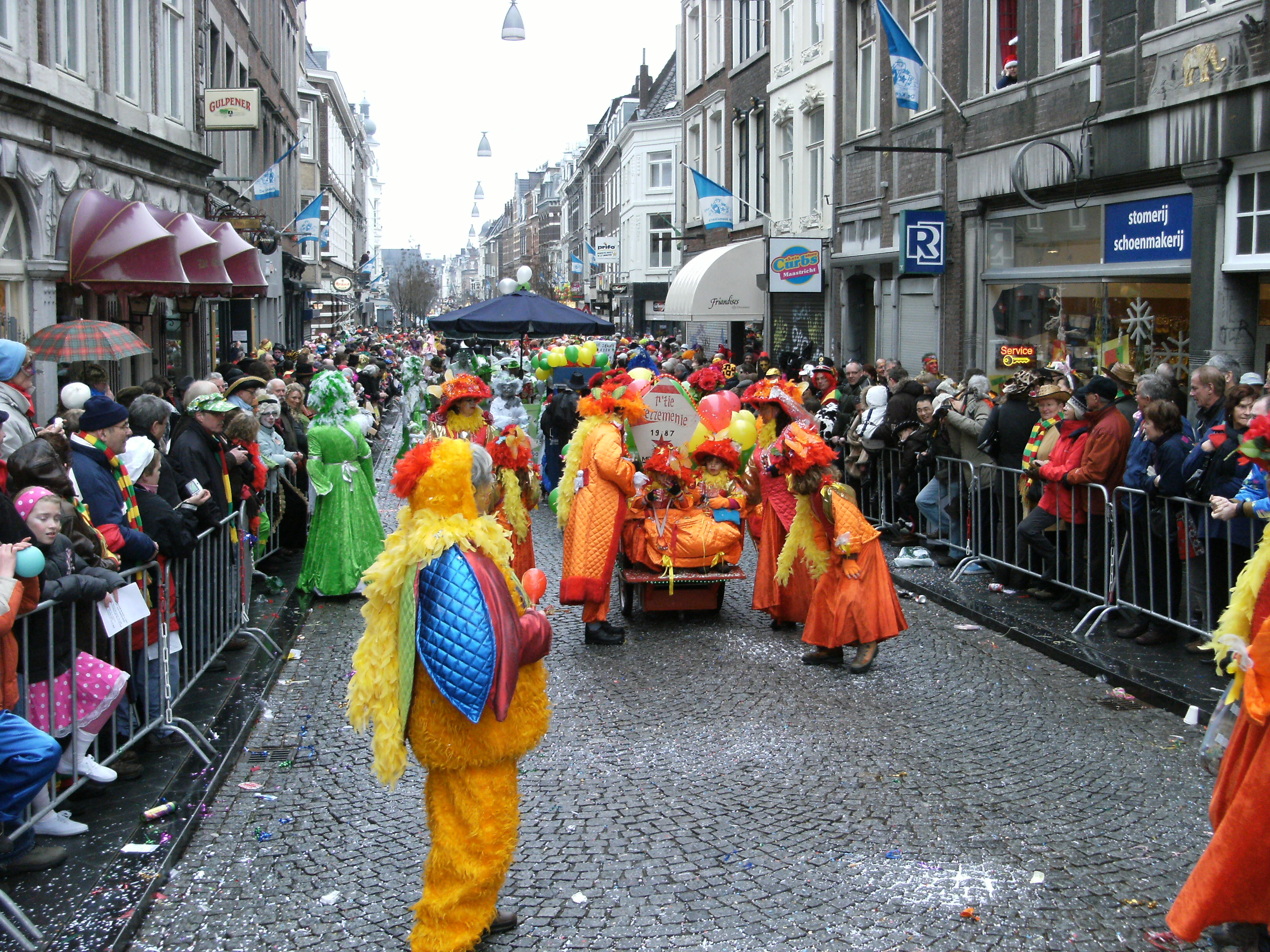 Wycker Brugstraat Maastricht, carnaval 2009.